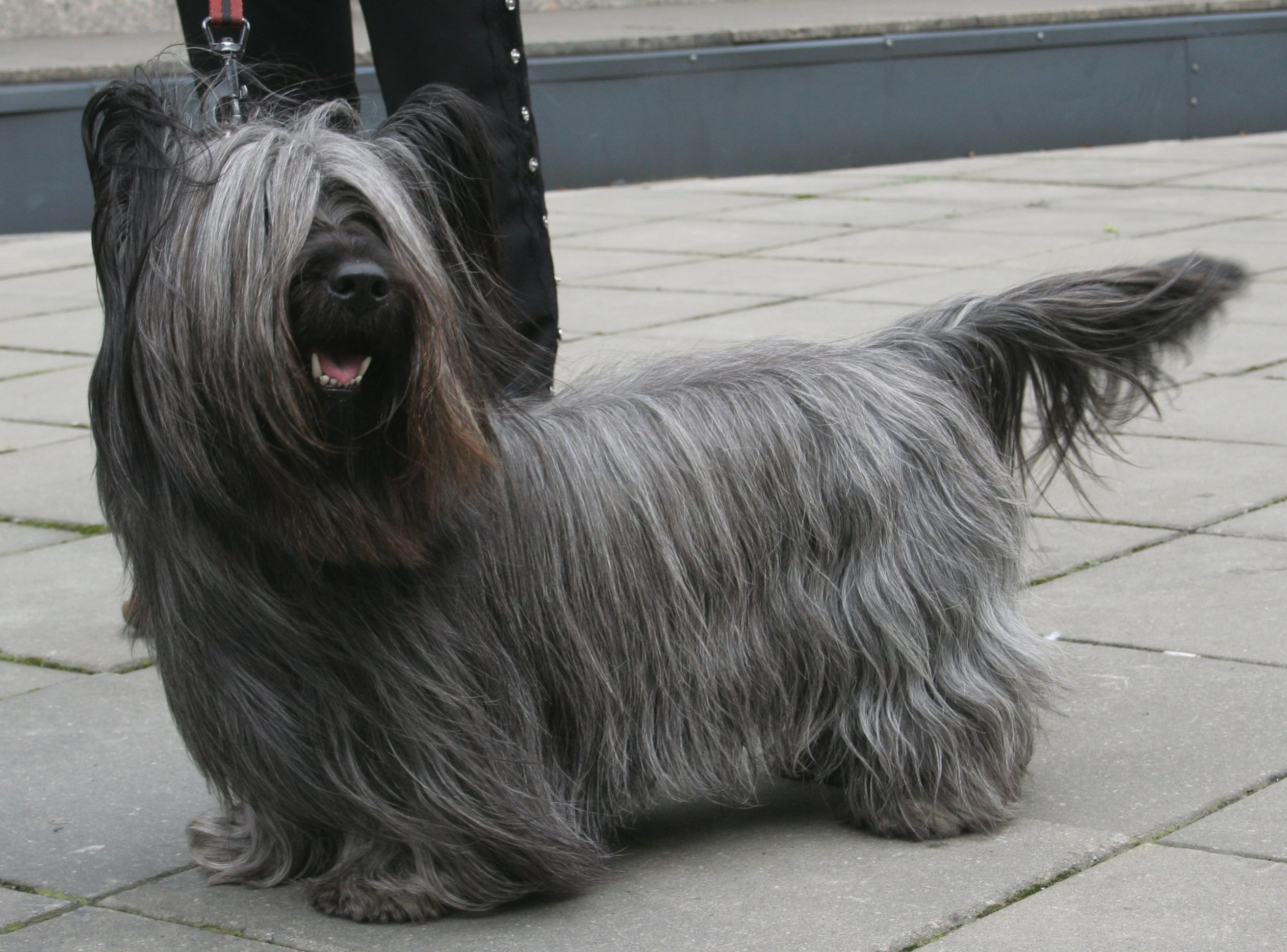 Skye Terrier during dogs show in Katowice, Poland.